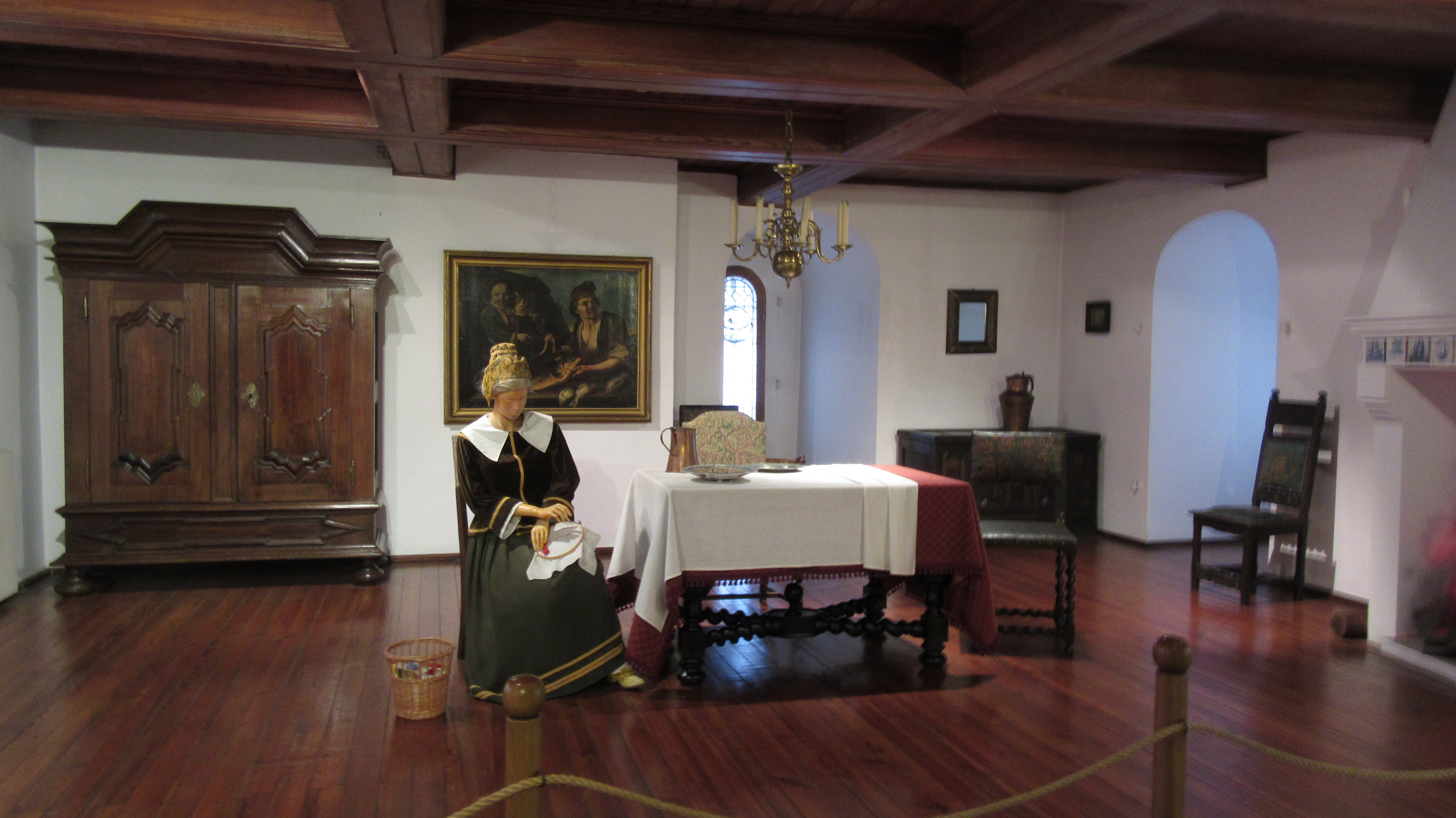 Diorama in National Maritime Museum in Gdańsk, showing day room in house of wealthy merchant.